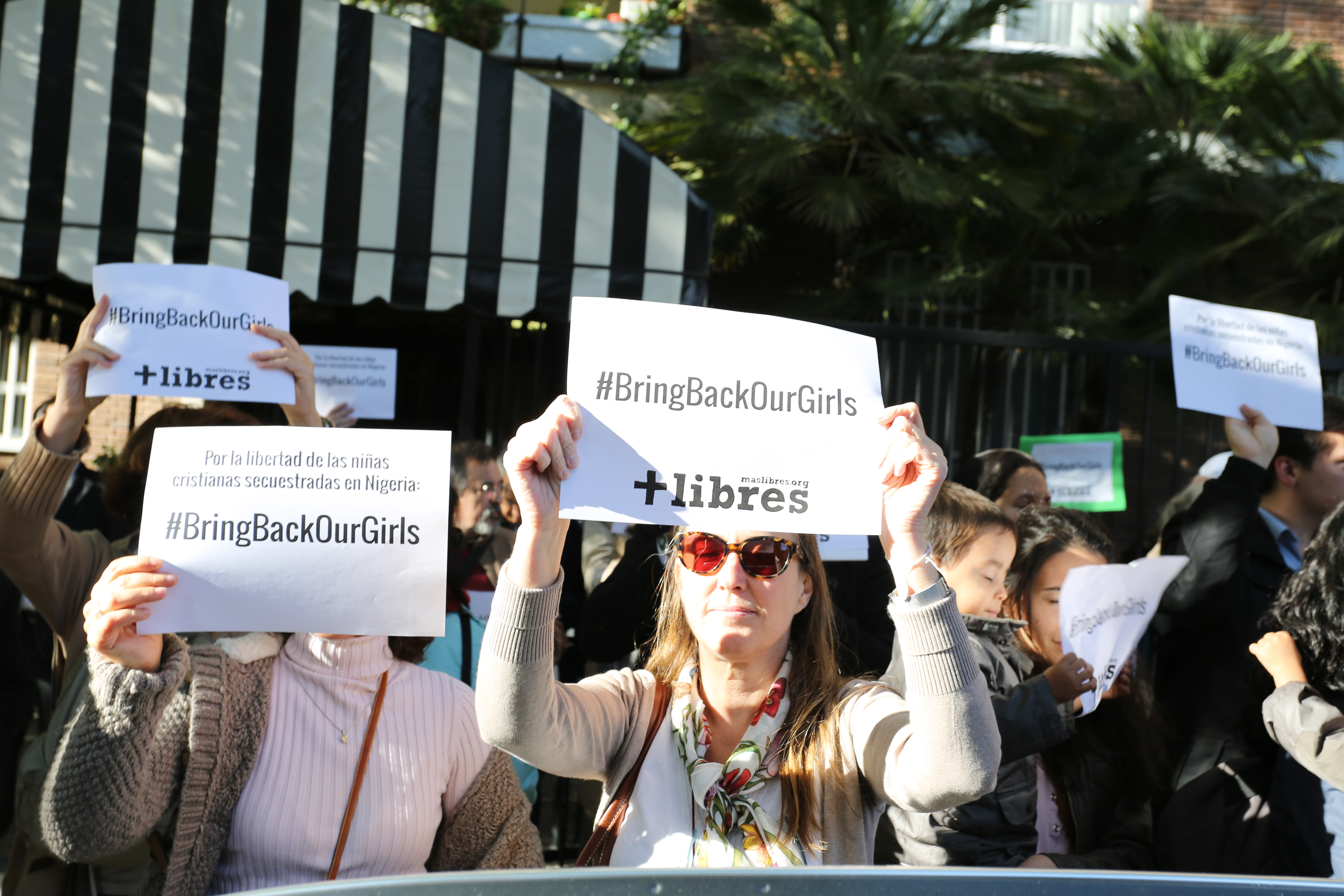 The #BringBackOurGirls protest spread to other parts of the world, such as in Spain.